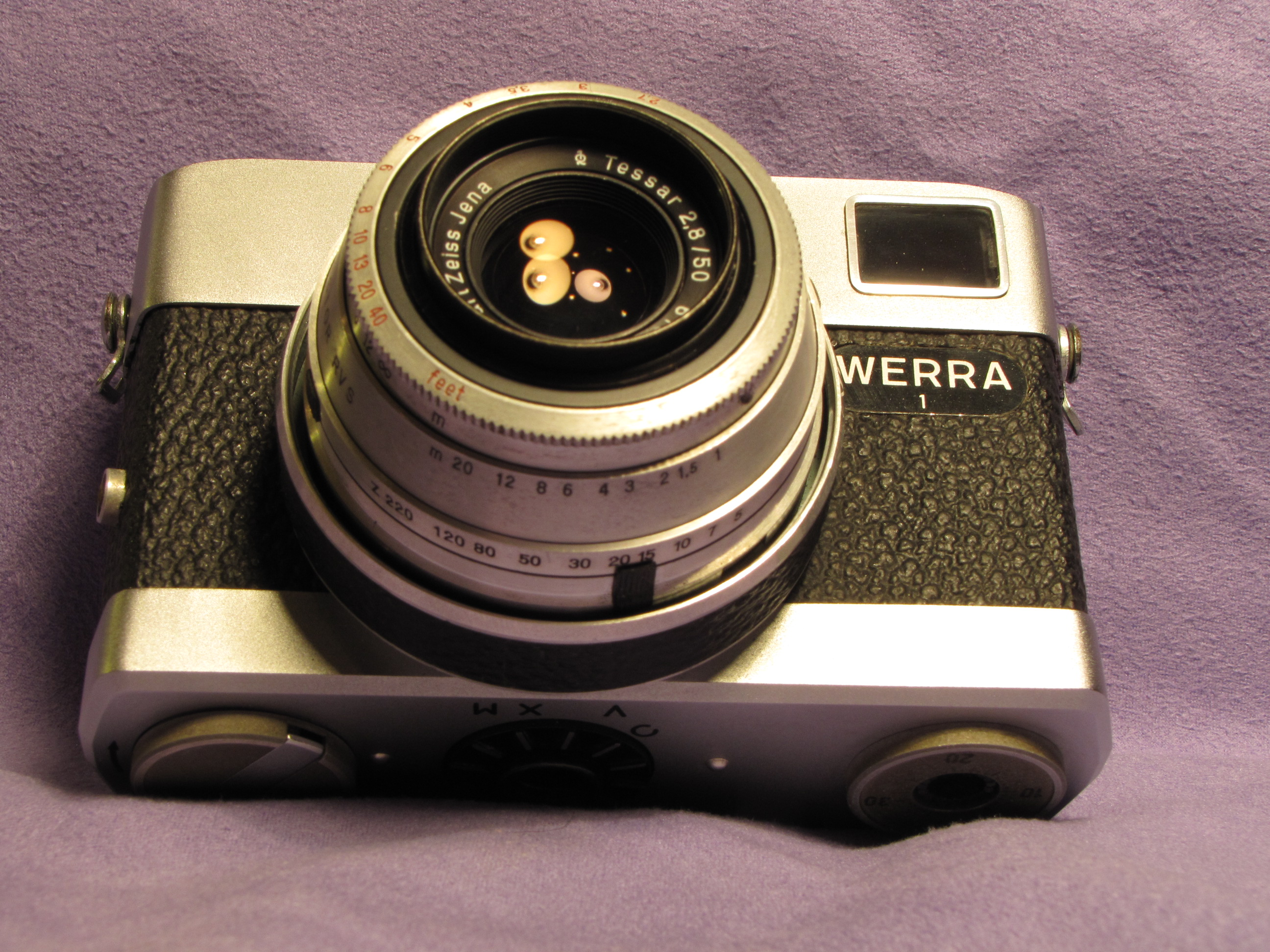 Carl Zeiss Werra 1c with Tessar f2.8/50mm lenses (6194240).